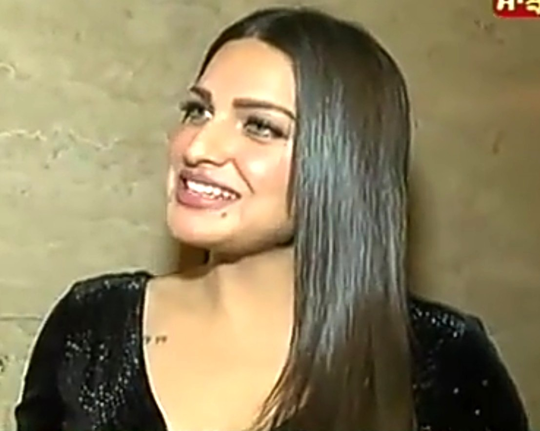 Himanshi Khurana